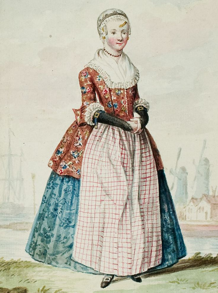 1770s Dutch woman's outfit with caraco (chintz) jacket